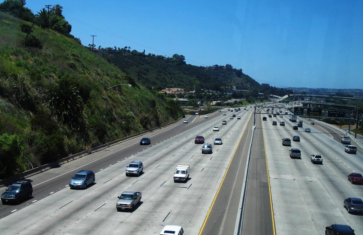 heading back east toward the station at San Diego State U.